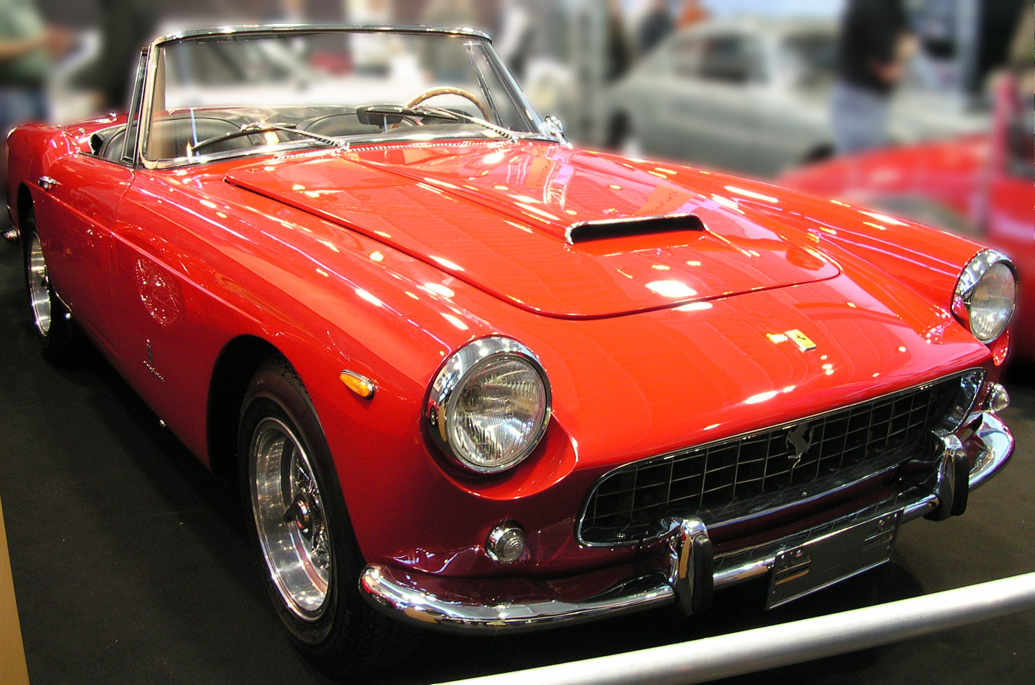 Essen Techno-Classica 2007, Ferrari 250 GT PF Cabrio, Series II 1960, V12 engine, 2953 cc